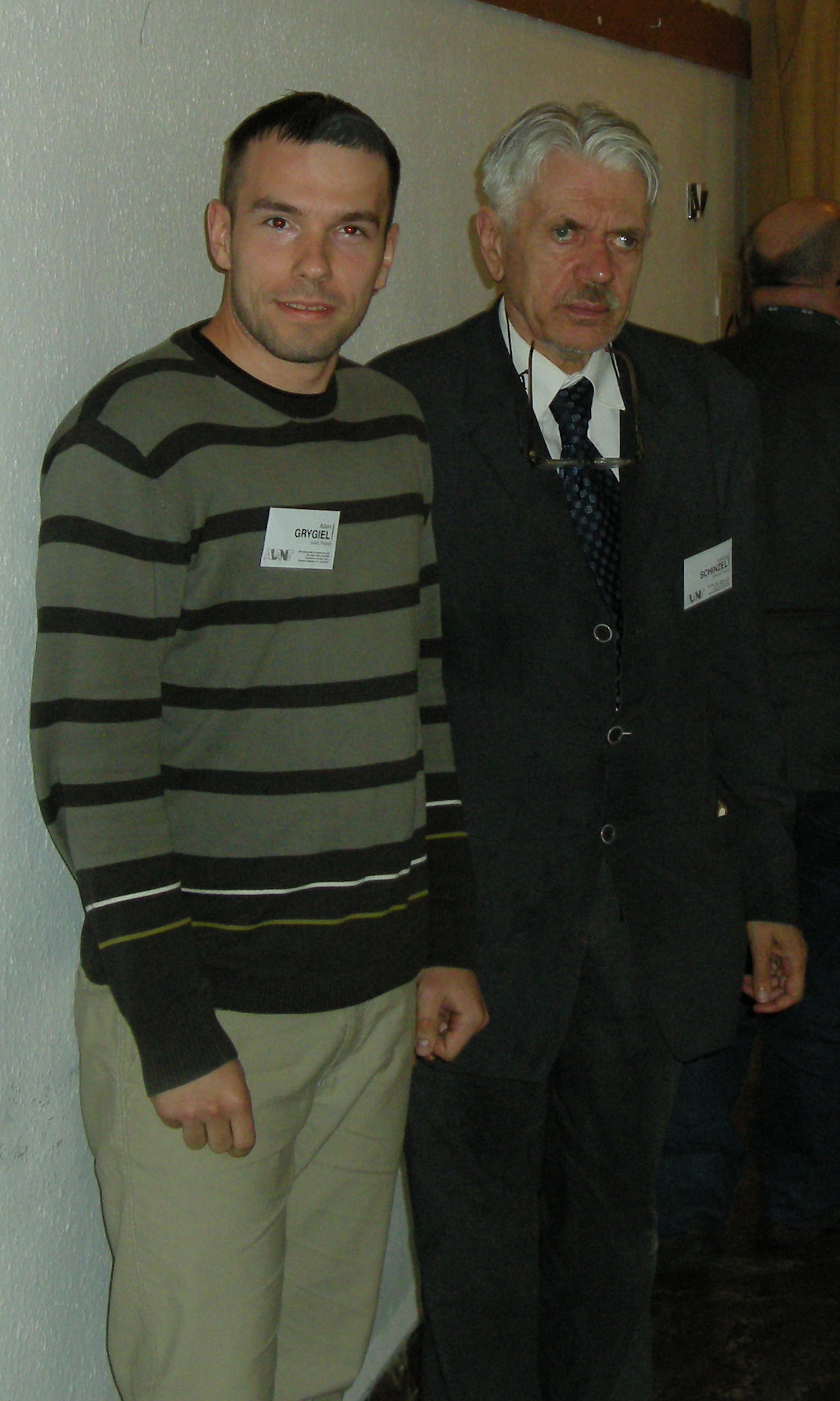 Andrzej Schinzel and Adam Grygiel's picture taken during the 8th Czech, Polish and Slovak Conference on Number Theory (Bukowina Tatrzańska, 2010)